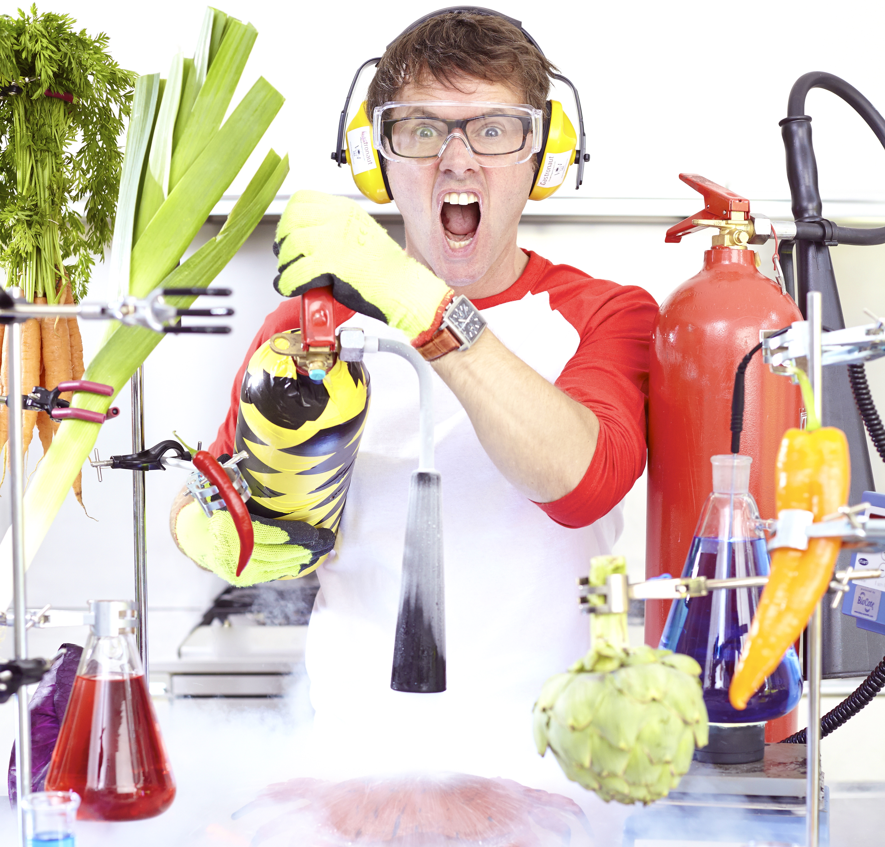 PR shot of Stefan Gates with props and food, such as he may include in a live show or tv series